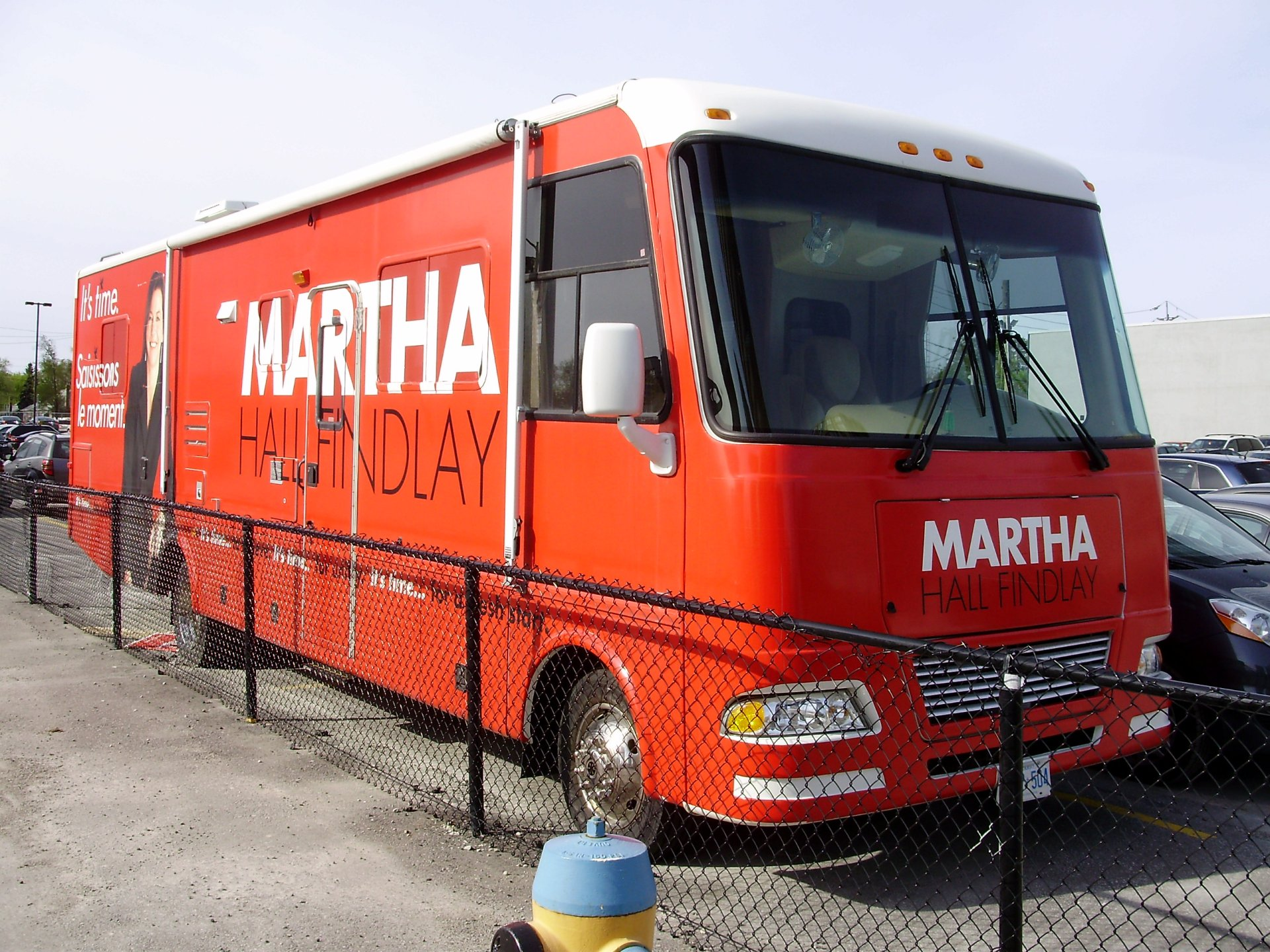 One of the vehicles used by Martha Hall Findlay's campaign for election to the Canadian House of Commons for Toronto's Willowdale riding, on the by-election of March 17, 2008. At the time of the photograph, the vehicle was parked off Yonge Street south of Sheppard Avenue.